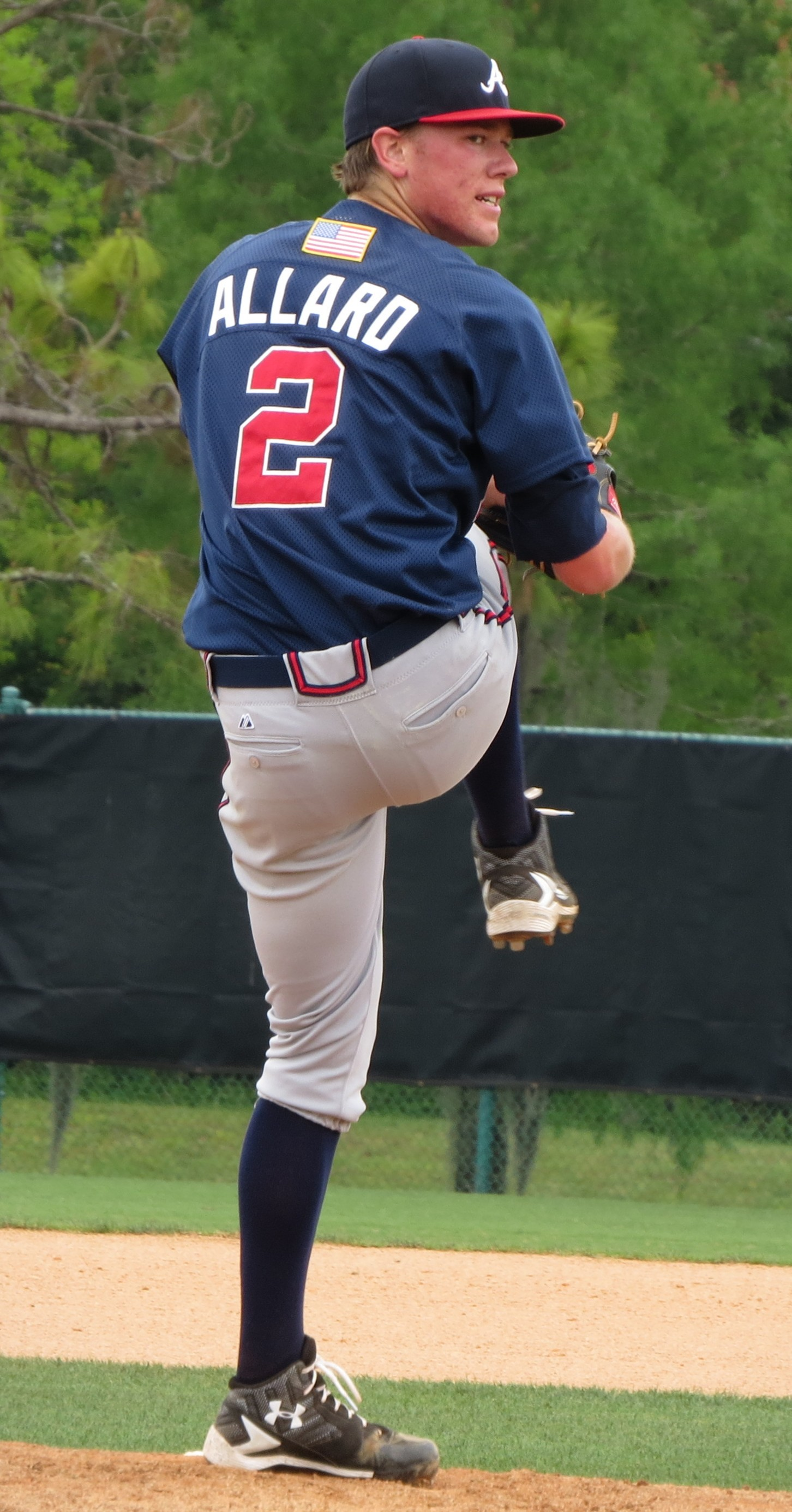 Kolby Allard pitching for the Atlanta Braves in 2016 Extended Spring Training